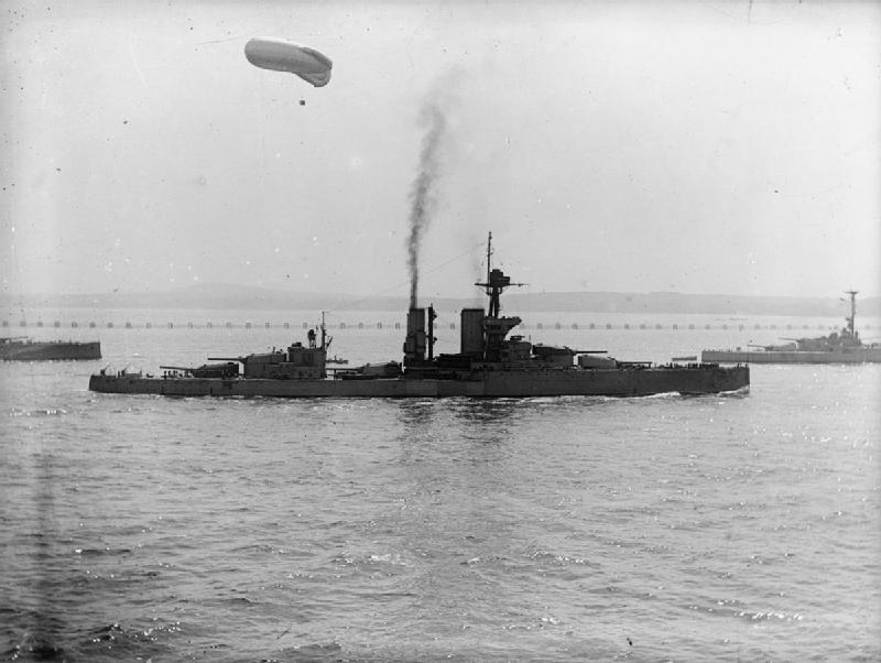 British battleship HMS King George V underway at Scapa Flow, flying an observation balloon.